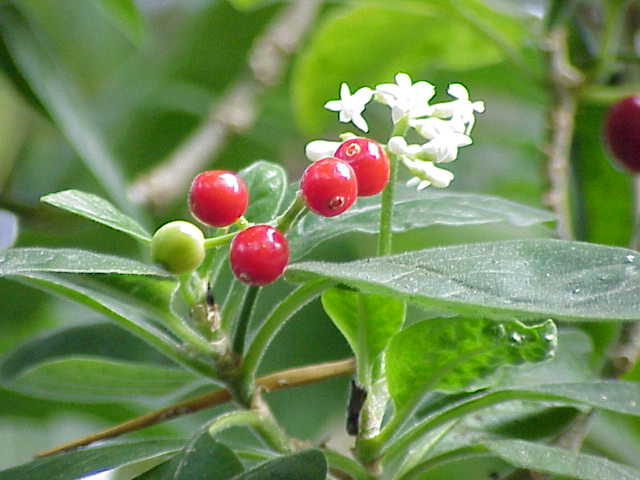 Species: Cephaelis acuminata Family: Rubiaceae Image No. 4